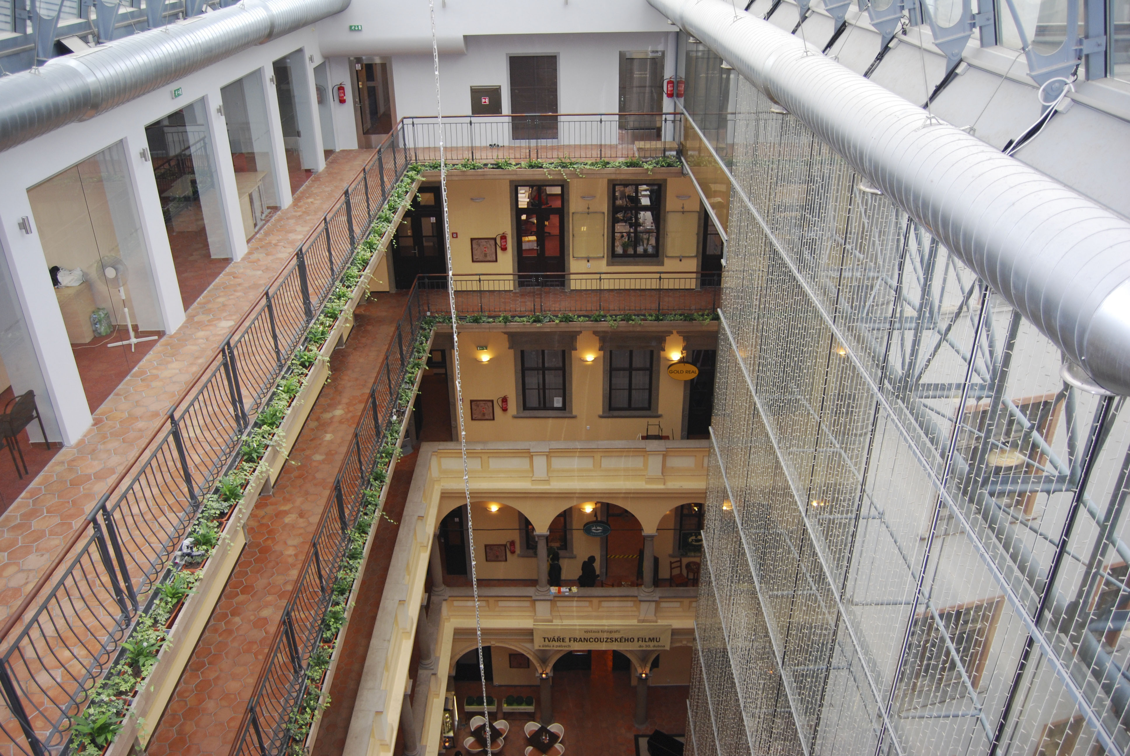 Template:Cscs